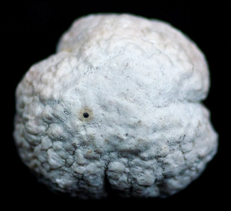 sinter (Var.: geiserite) Locality: Yellowstone National Park, Park County, Wyoming, USA (Locality at ) Size: 3.3 x 3.0 x 2.4 cm. So-called "geyserite" is a variety of opal formed in fumarole deposits. Apparently these were collected by a Dr. Leidy in 1877 on a trip, and brought back to give to the Academy for its collections. This piece comes with a copy of the original label. NOTE: Collecting in the park is prohibited today. Ex. Philadelphia Academy of Sciences Collection.